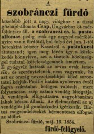 Advertisement (Szobránc, public baths)